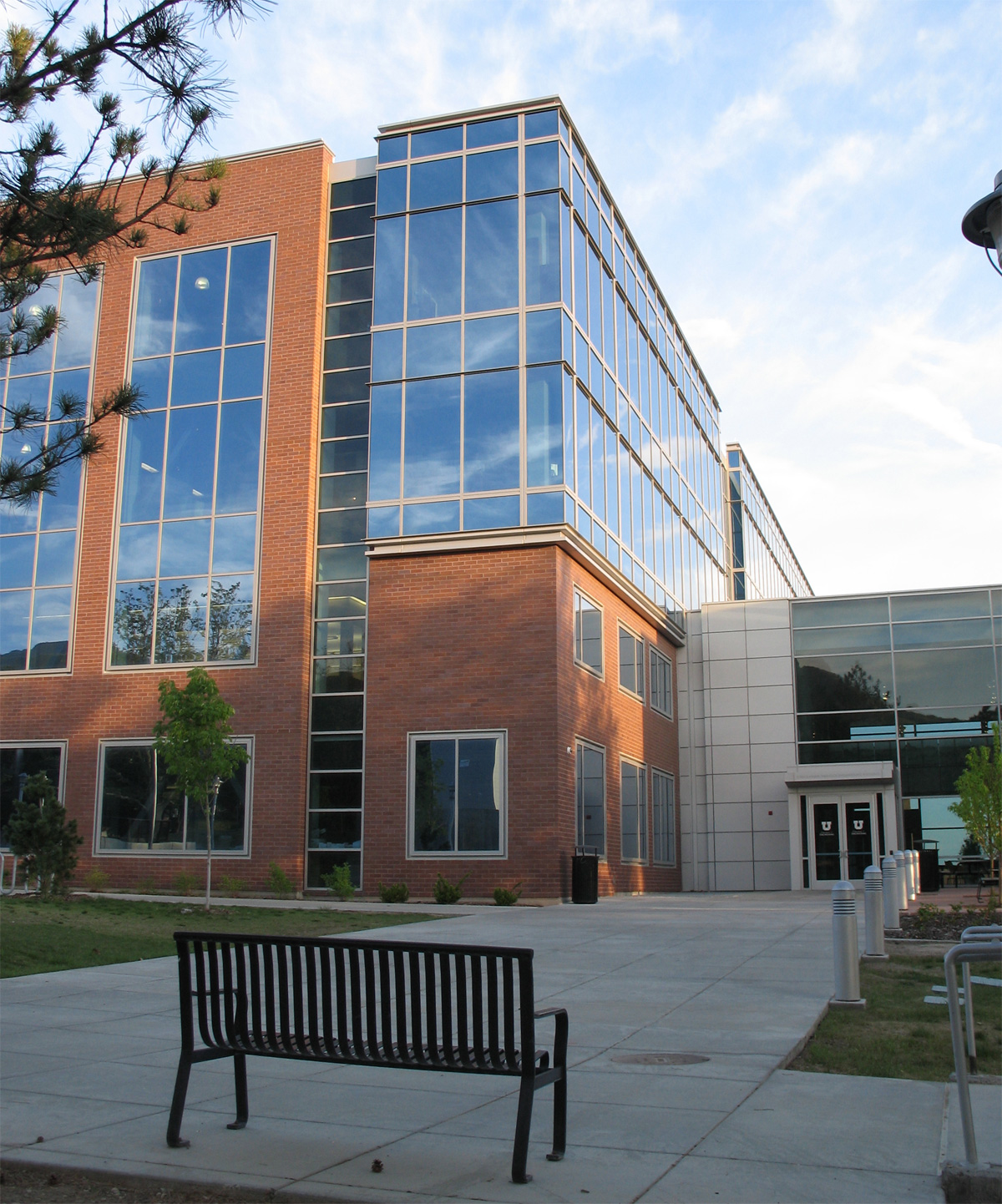 The Warnock Engineering Building at the University of Utah campus in Salt Lake City, Utah